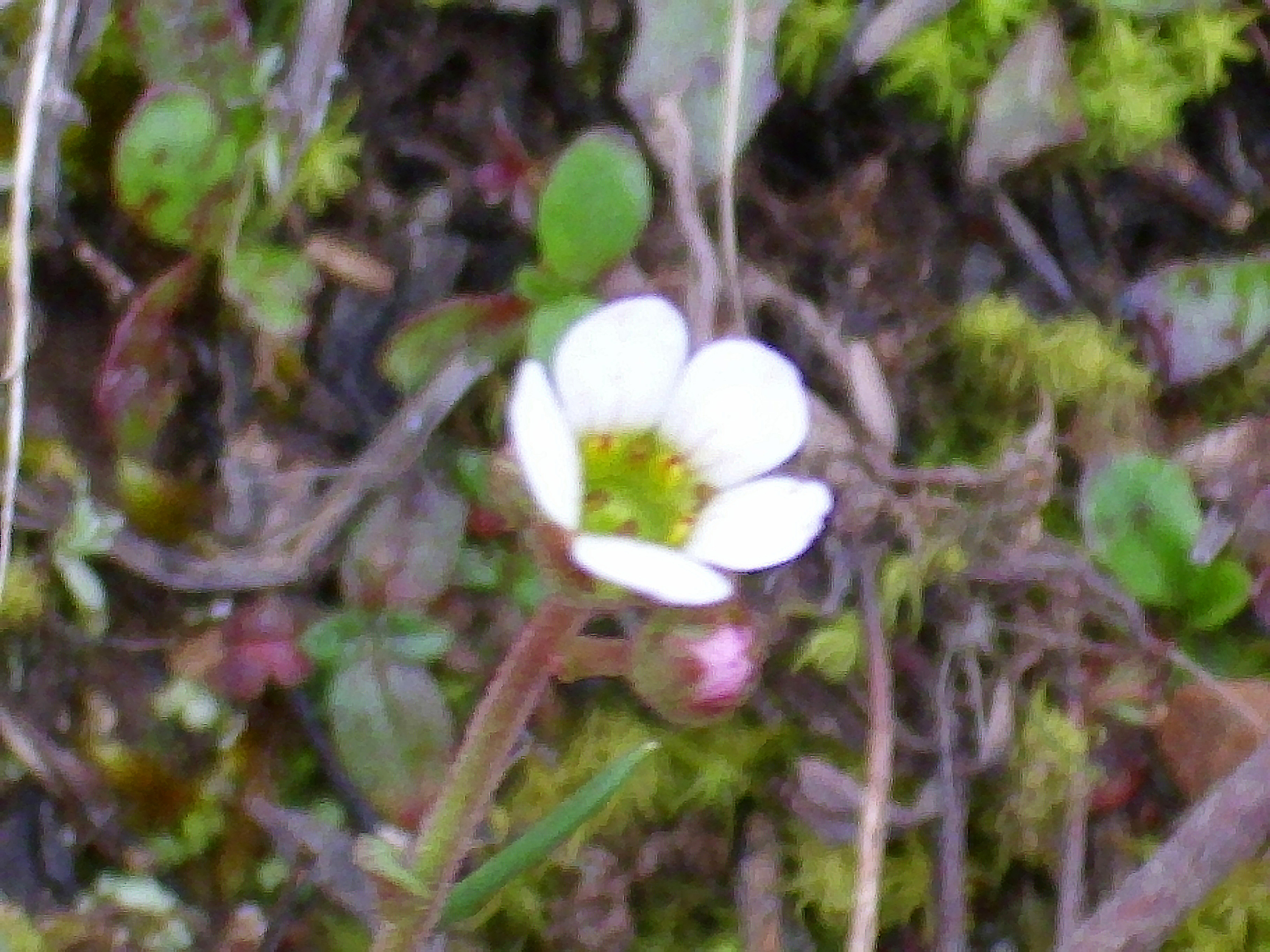 Saxifraga carpetana flower Sierra Madrona, Spain